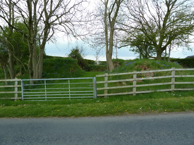 Remains of Weeton Windmill, Weeton, Lancashire